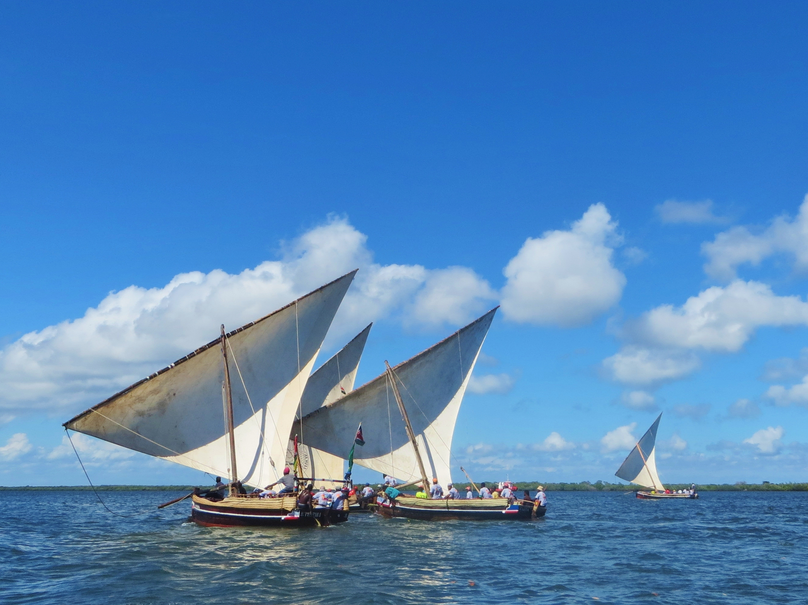 Dhow race at Lamu (Kenya) during the Mawlid festival